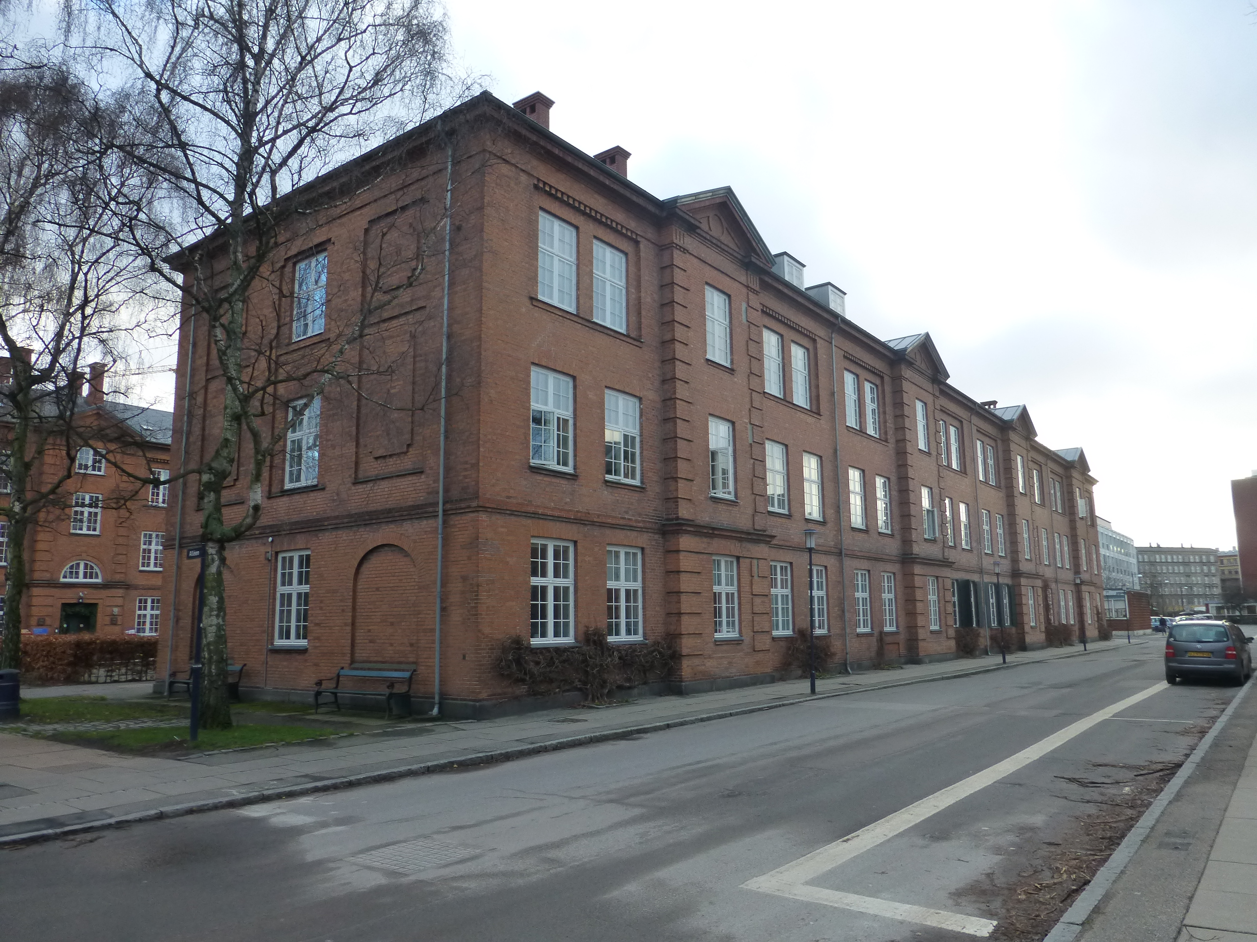 The nursing home De Gamles By (the old peoples city) in Nørrebro in Copenhagen.